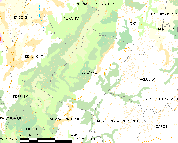 Map of French municipality Le Sappey